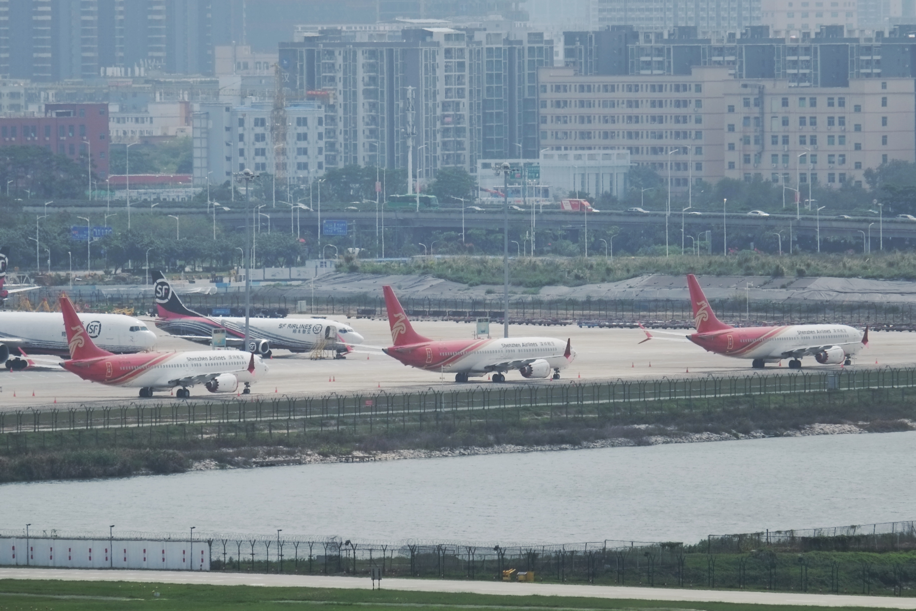 All Boeing 737 MAX 8 aircraft in China have been grounded since 11 March 2019, following the crash of Ethiopian Airlines Flight 302